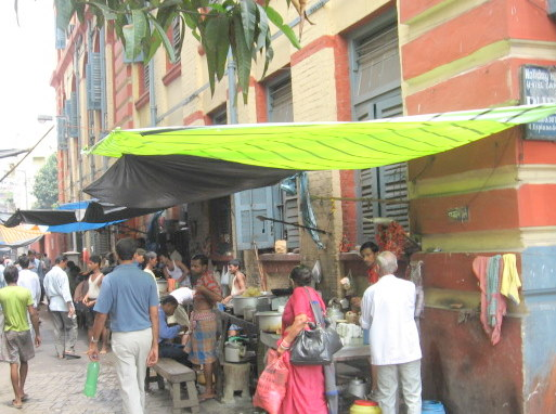 Dacres Lane Kolkata